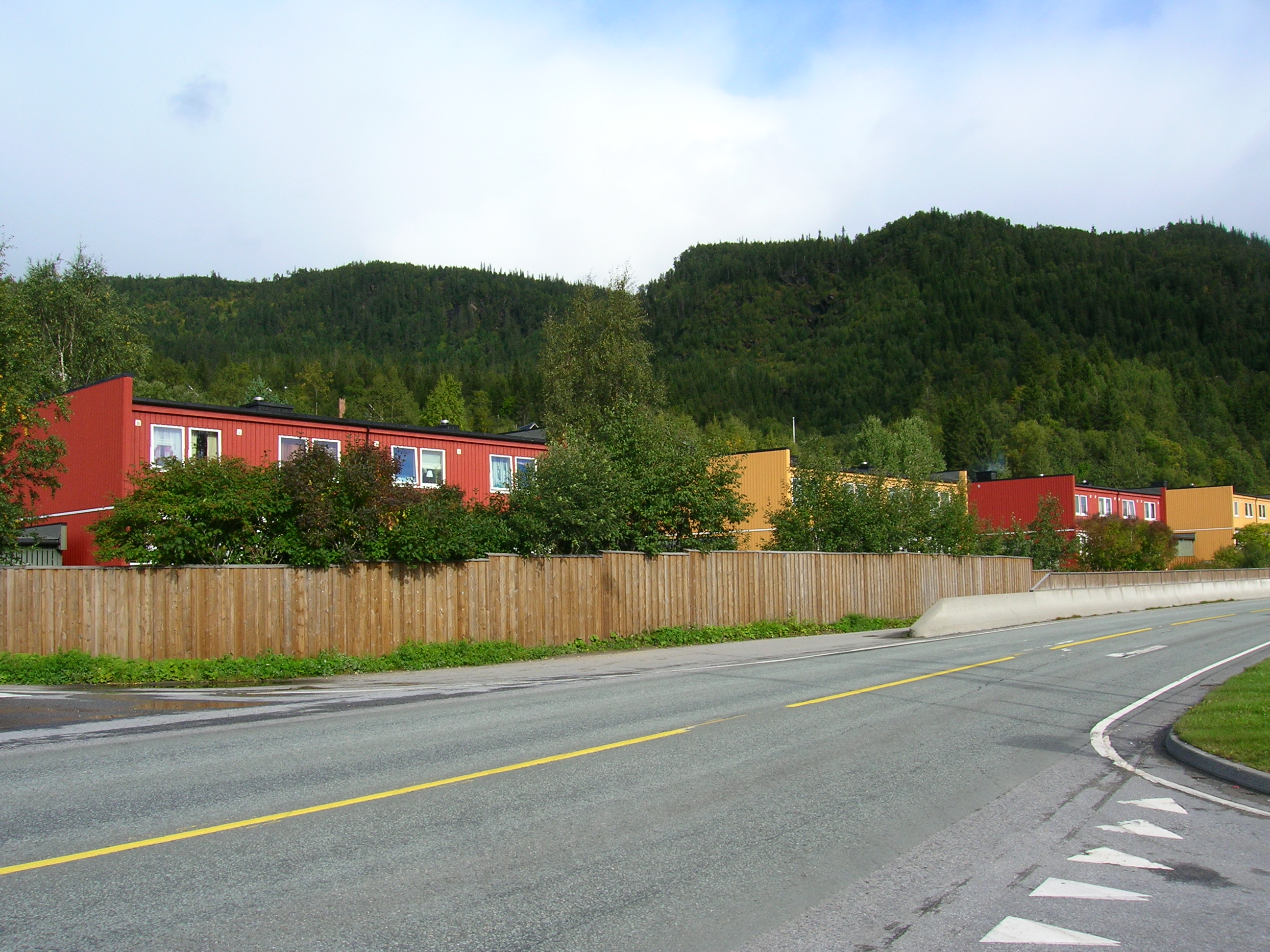 Brennsletta housing cooperative on Selfors, north of Mo i Rana, Rana municipality, county of Nordland, Norway, Photo 7 September, 2007 with a Nikon Coolpix 5600 5,1 Megapixel camera.